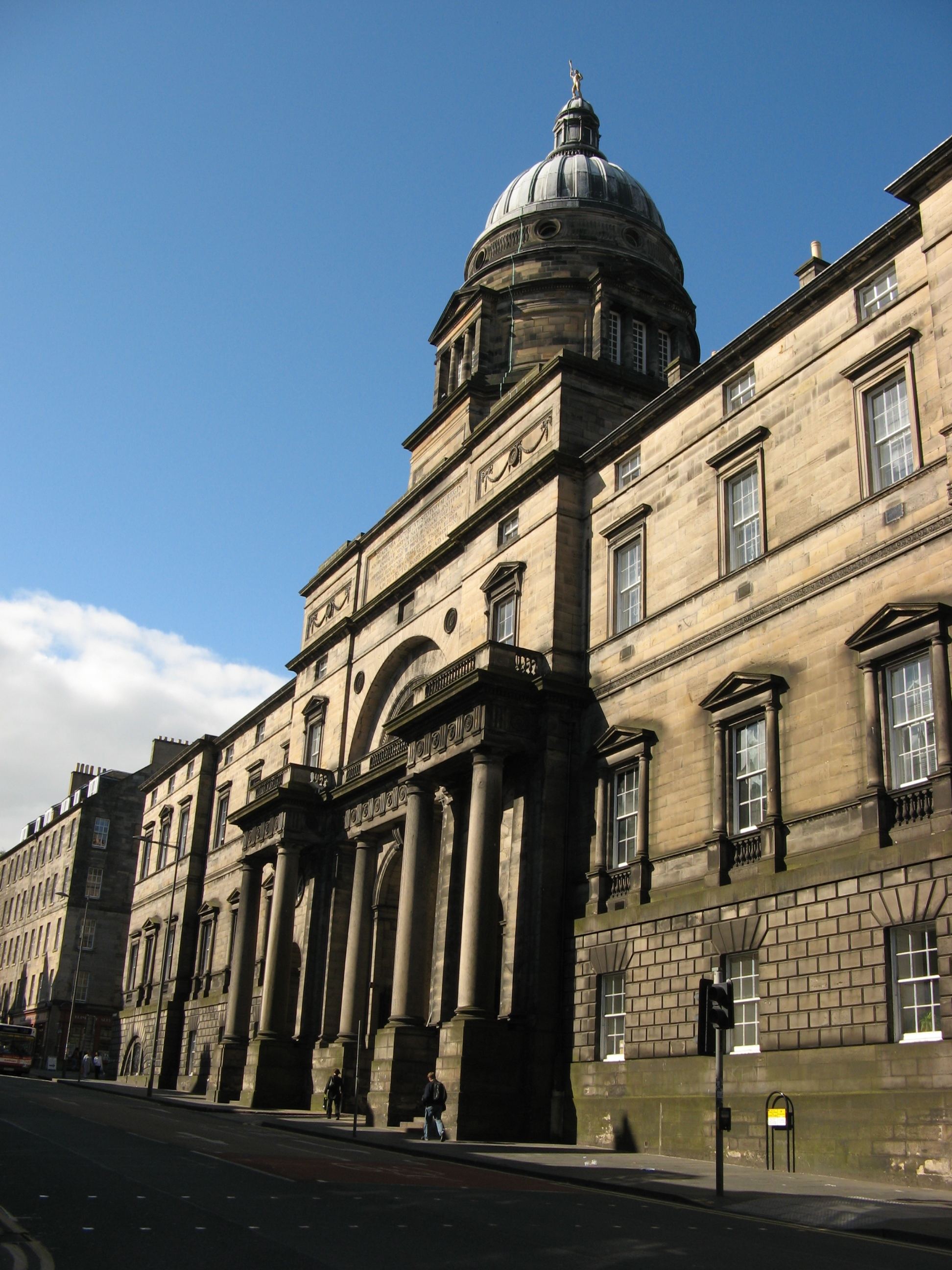 Old College, University of Edinburgh. Designed by Robert Adam.